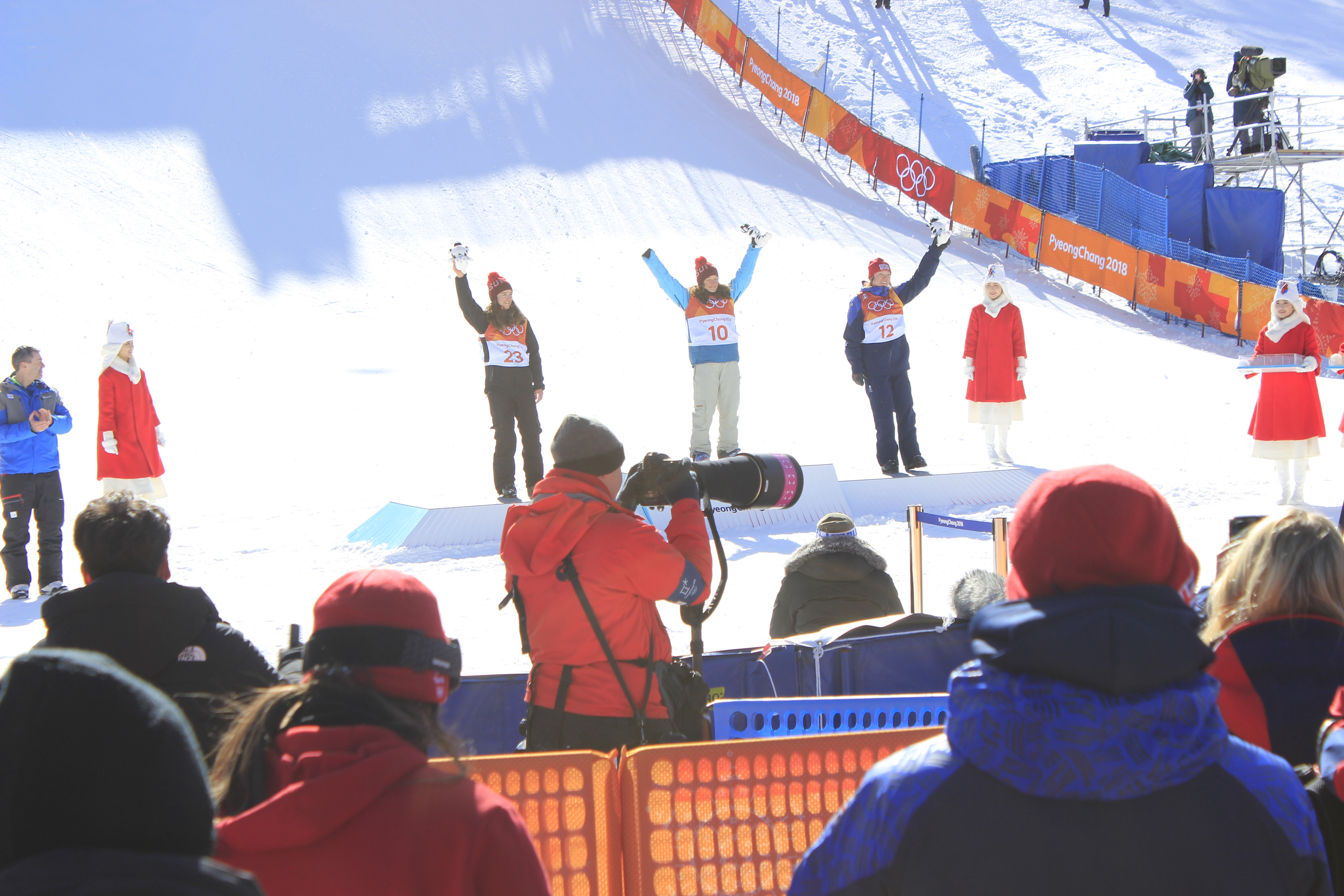 2018 Olympics Phoenix Pyeongchang Awards Ceremony